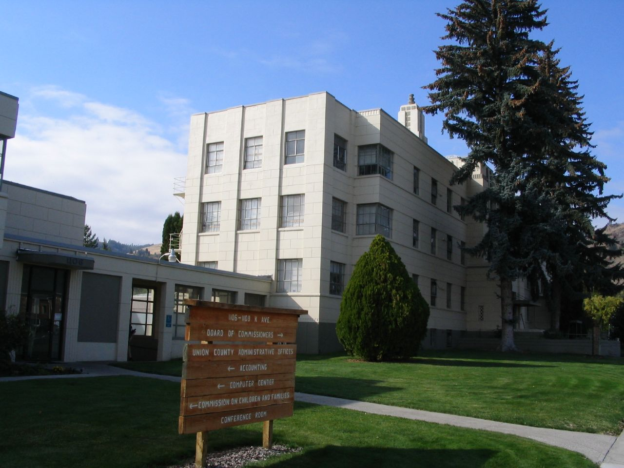 La Grande is a city in Union County, Oregon, United States.The population was 13,082 at the 2010 census. It is the county seat of Union County. La Grande lies east of the Blue Mountains and southeast of Pendleton. The Grande Ronde Valley had long been a waypoint along the Oregon Trail. The first permanent settler in the La Grande area was Benjamin Brown in 1861. La Grande was incorporated as a city in 1865, and platted in 1868. La Grande grew rapidly during the late 1860s and early 1870s, partially because of the many gold mines in the region and the valley's agricultural capabilities. The early business establishments centered on C Avenue between present day Fourth Street and the hillside on the west end. La Grande's Eastern Oregon University, formerly known as Eastern Oregon State College, began in 1929 as Eastern Oregon Normal School, a teachers college. La Grande had a factory for processing sugar beets into raw sugar. The sugar beets came from the nearby Mormon town of Nibley, Oregon, and both were owned by the Oregon Sugar Company.